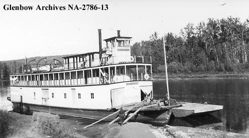 Northern Trading Company steamship, "Northland Echo".